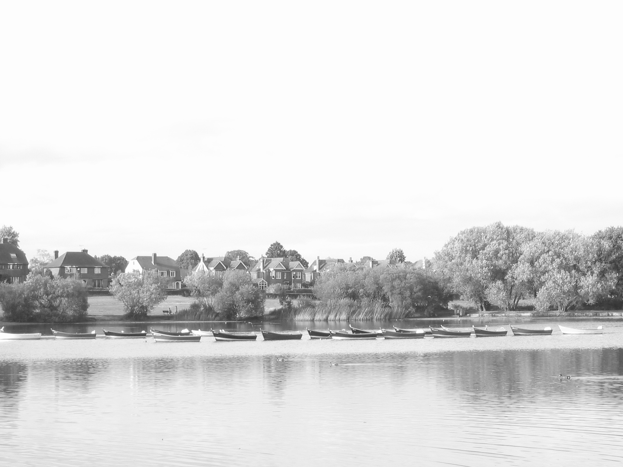 Monochrome view of Heath Pond, Petersfield, by Tony Holkham, 2006